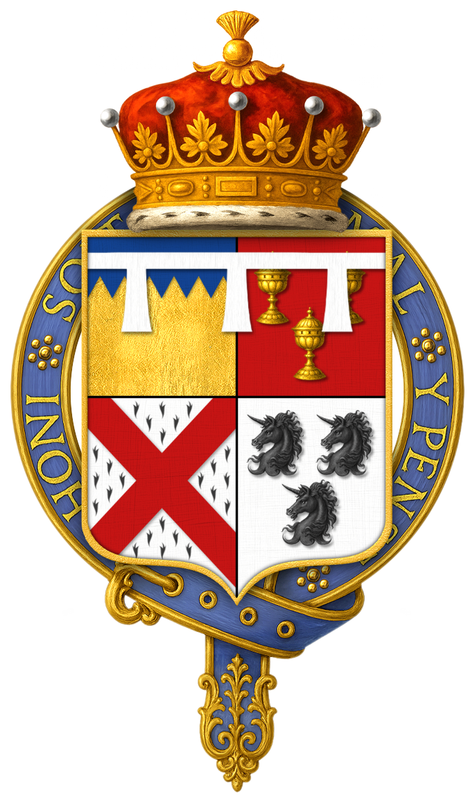 Coat of arms of Thomas Butler, 6th Earl of Ossory, KG, PC, PC(I)